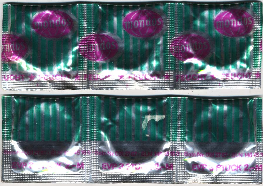 Mondos, the name of East German condoms author: Mws.richter 15:43, 4 February 2006 (UTC) source: self scanned 2006-02-04